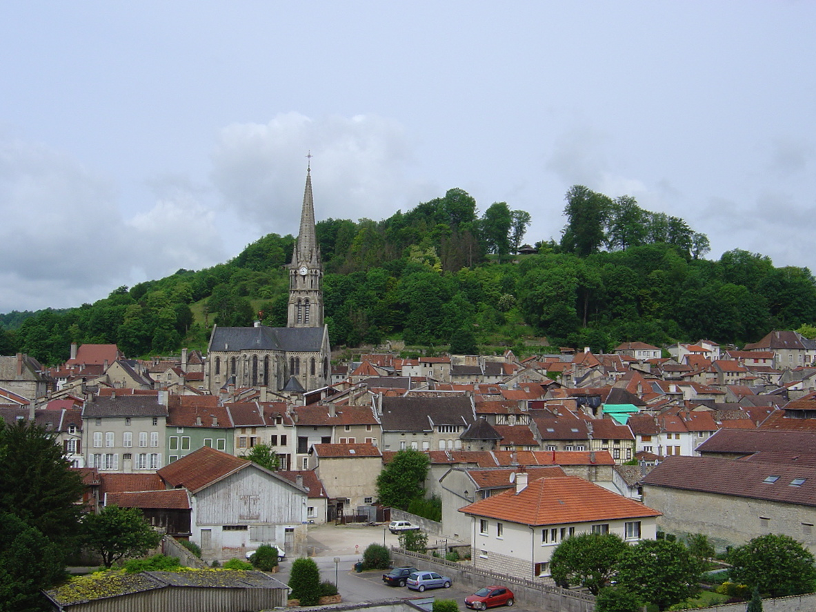 Panoramic of Joinville, France.